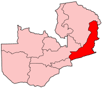 Map of Zambia showing Eastern province.